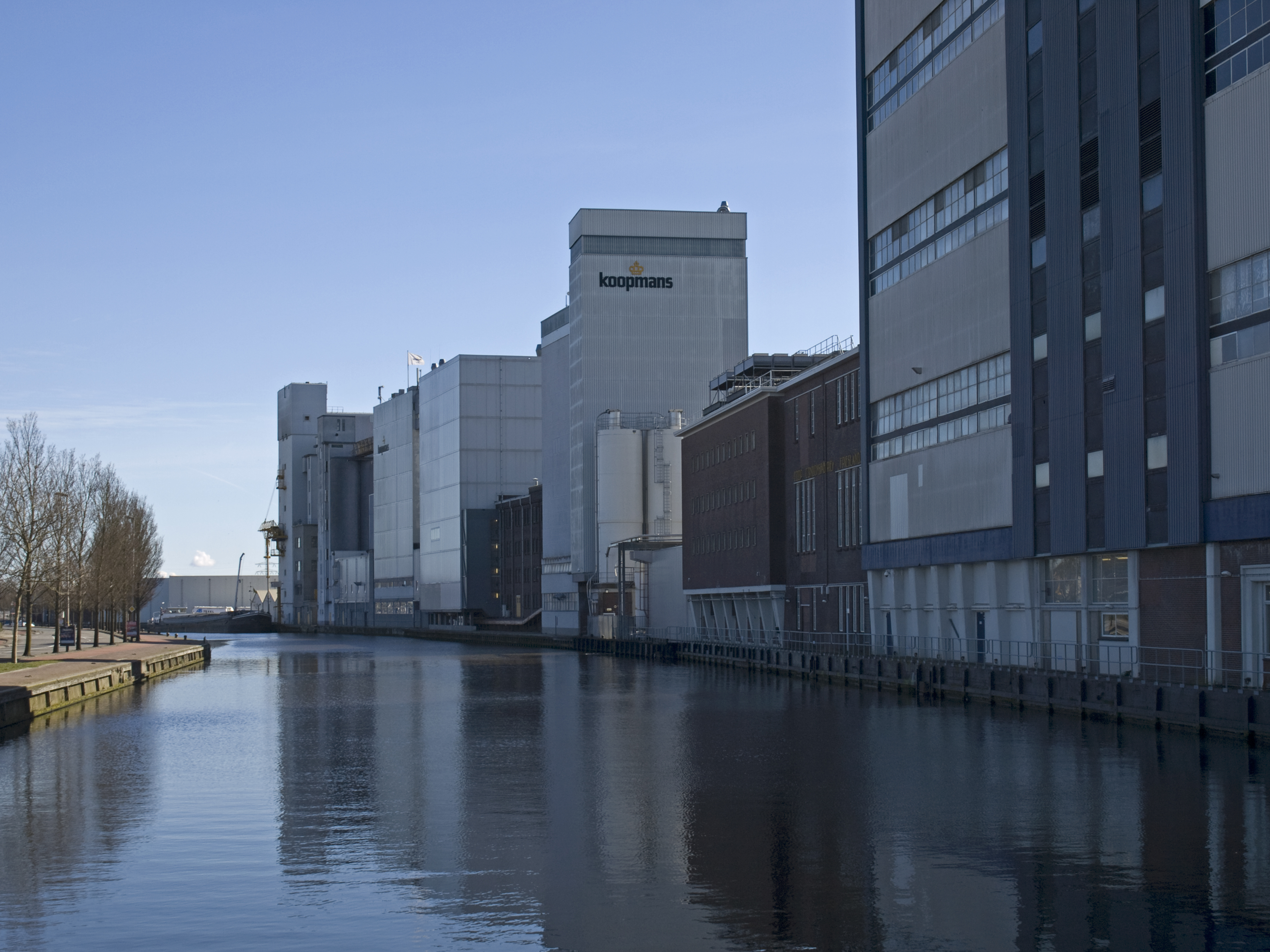 Koopmans Koninklijke Meelfabrieken, Leeuwarden (left). Taken from the bridge (2de Kanaalsbrug) over the Nieuwe Kanaal.